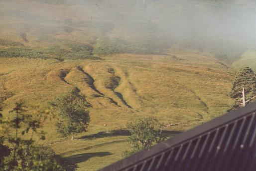 Gully in the Soils Tulach north Blair Atholl The Gully forms are well defined in the sunrise on the weathered rock fragment mid to base slope, where the water evidently goes to subsurface beneath the valley soil catena sequence. Sunday 3rd September early morning mist, Blairgowrie Games were spared a wet day. North side Tulach Hill.